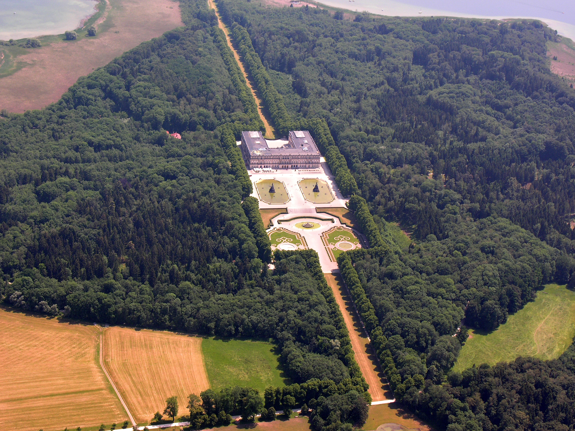 Germany, Bavaria, Herrenchiemsee castle